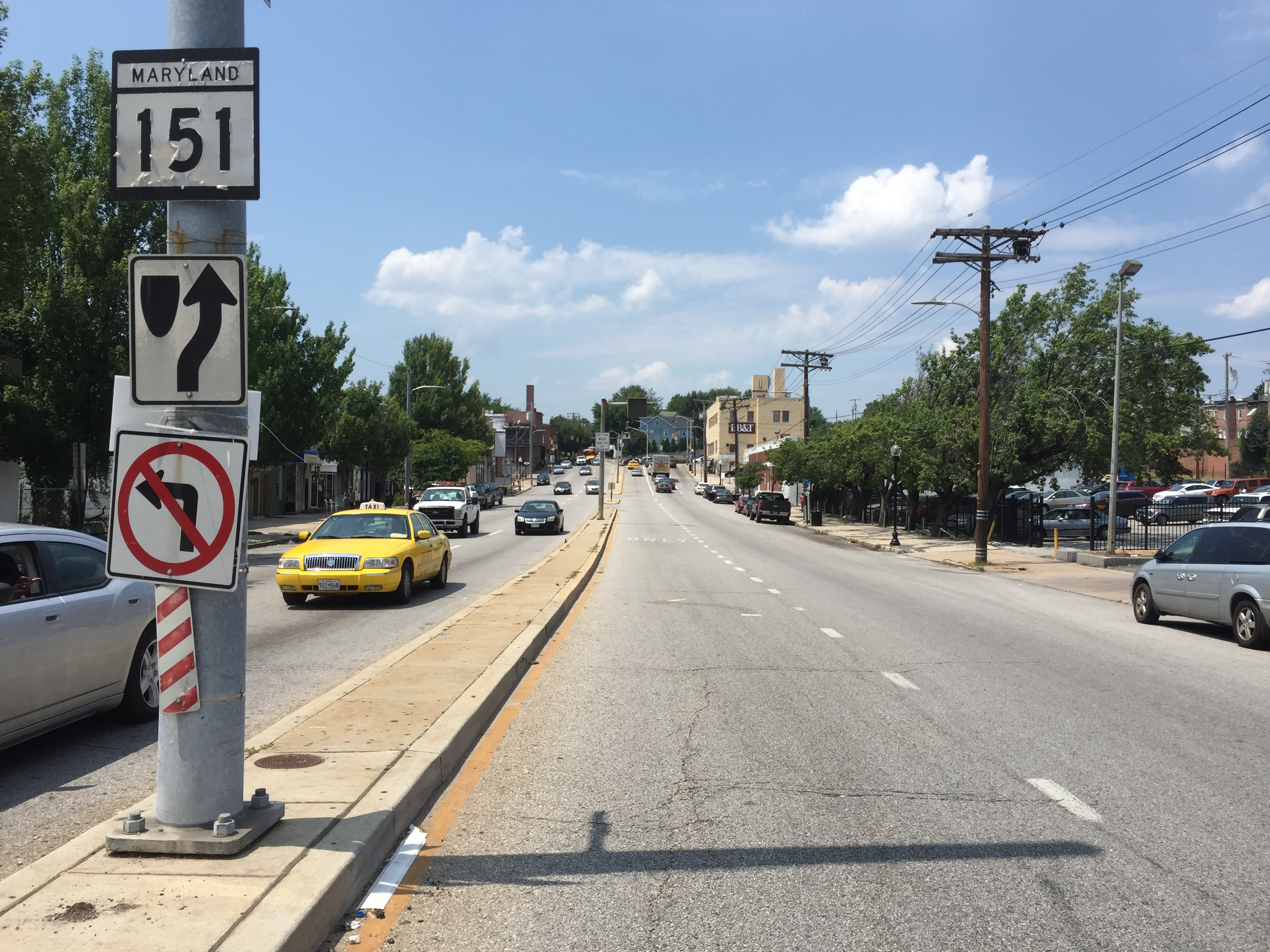 View north along Maryland State Route 151 (Erdman Avenue) at Edison Highway and Mannasota Avenue in Baltimore City, Maryland